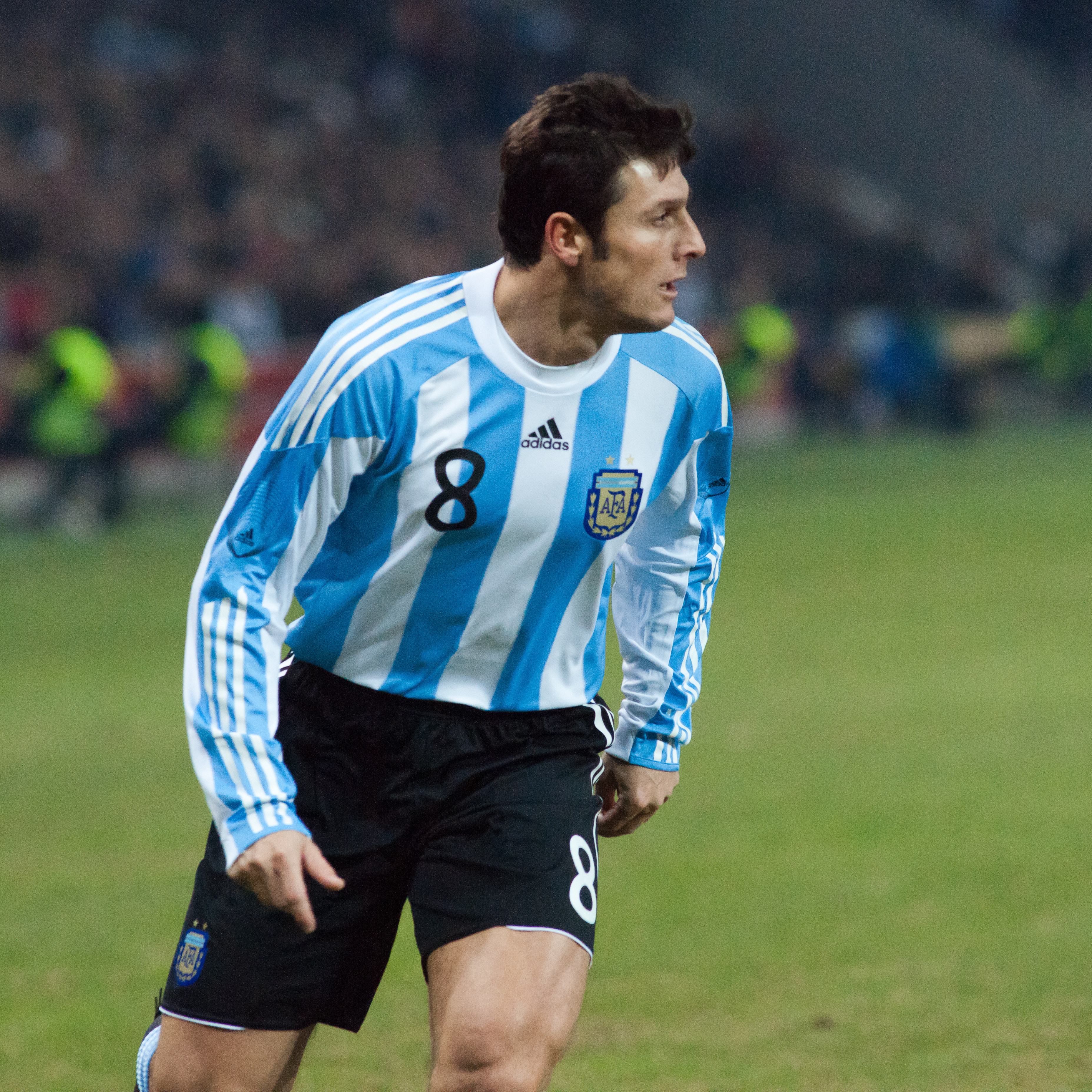 The making of this document was supported by Wikimedia CH. (Submit your project!) For all the files concerned, please see the category Supported by Wikimedia CH. Portugal vs. Argentina, 9th February 2011